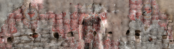 Pieced-together composite of 300+ photographs showing the top 22 by 5 feet of the mural